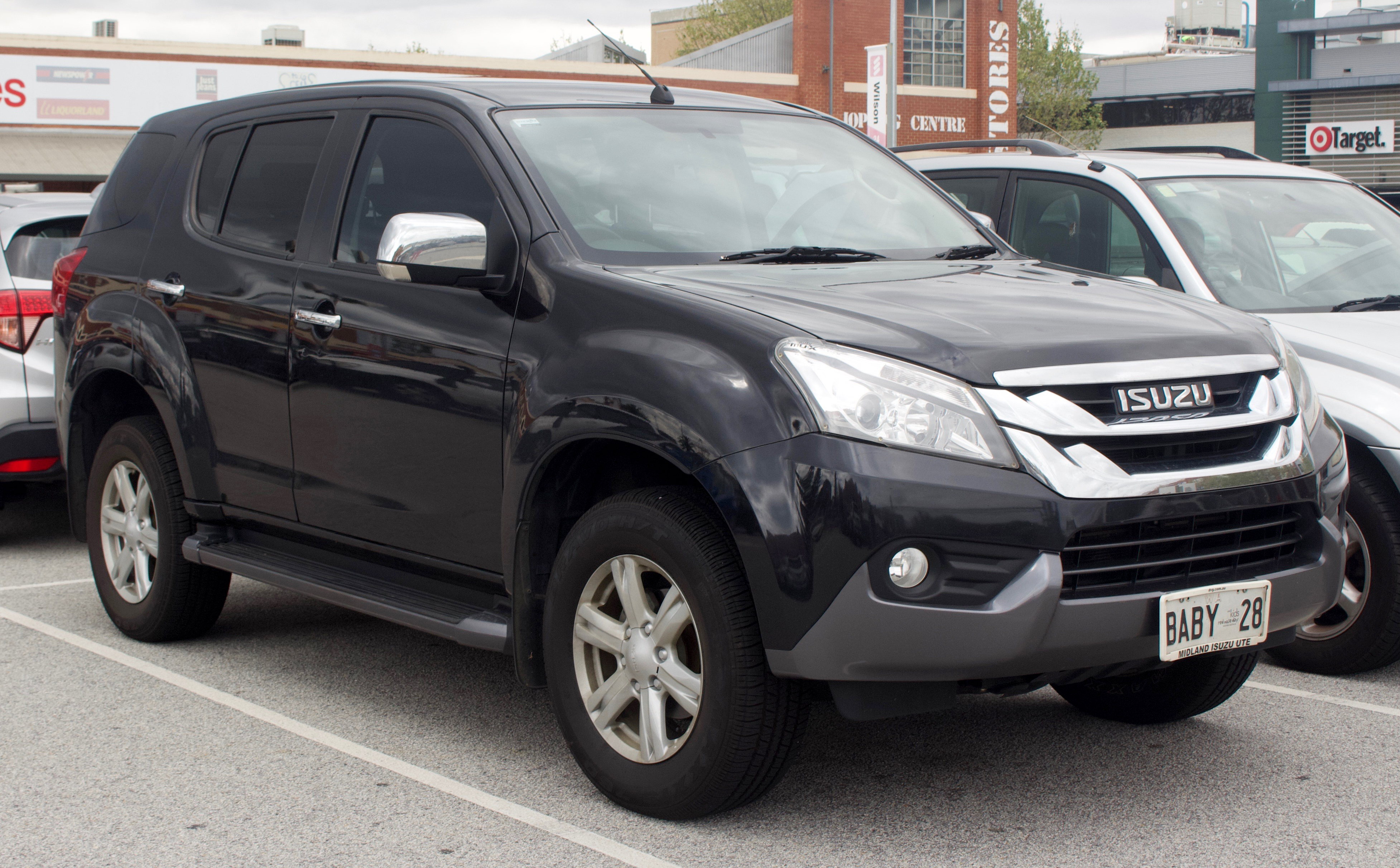 2013-2017 Isuzu MU-X LS-U 4x2 wagon. Photographed in Fremantle, Western Australia, Australia.